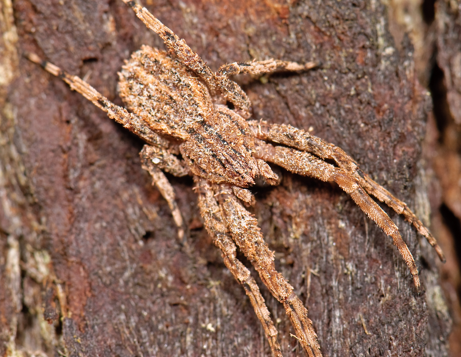 very nice cryptic bark-dwellers Thurra River CG, Croajingolong NP, Victoria, AUS